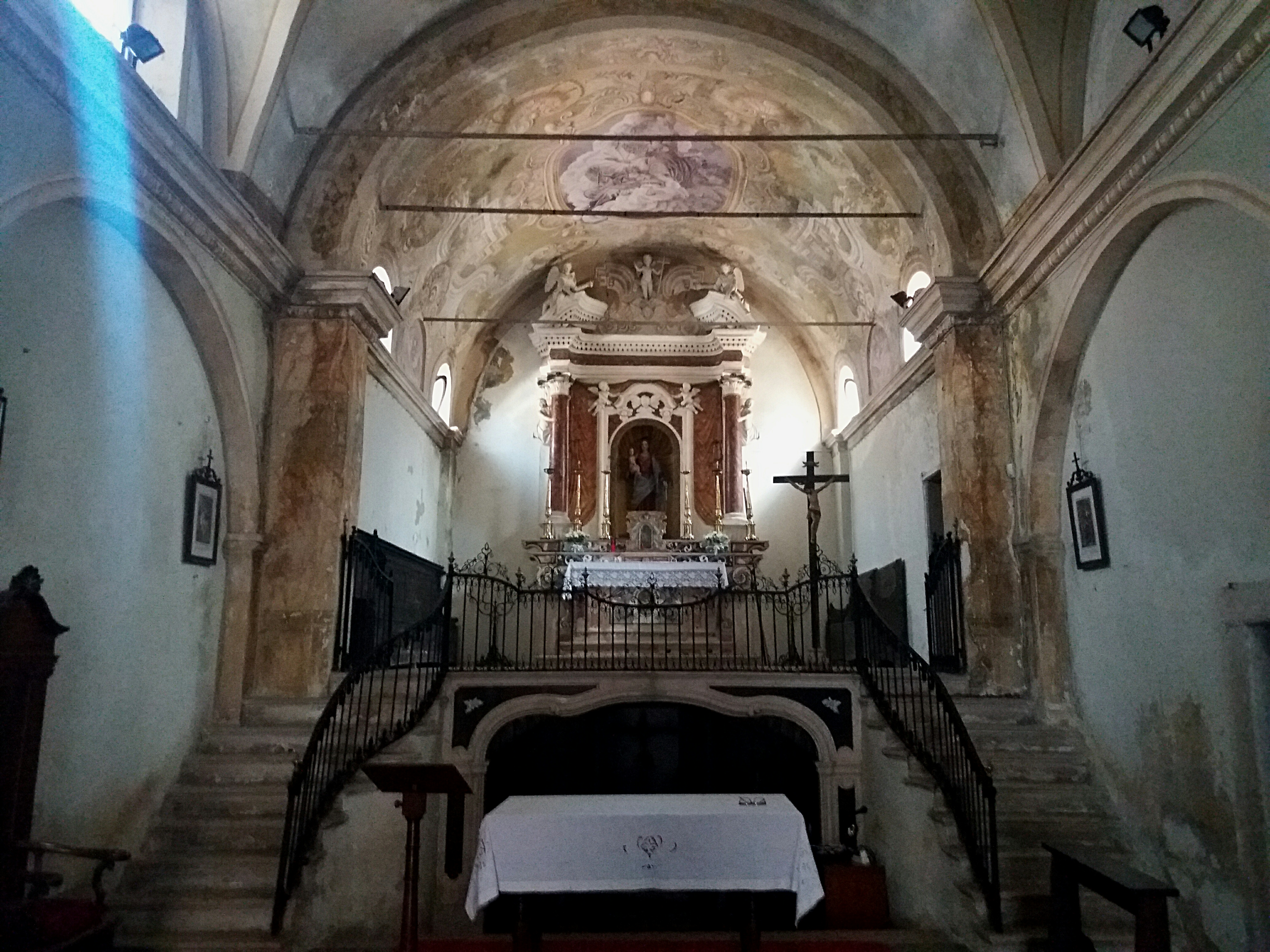 Chiesa dei Disciplini Bianchi - Interno